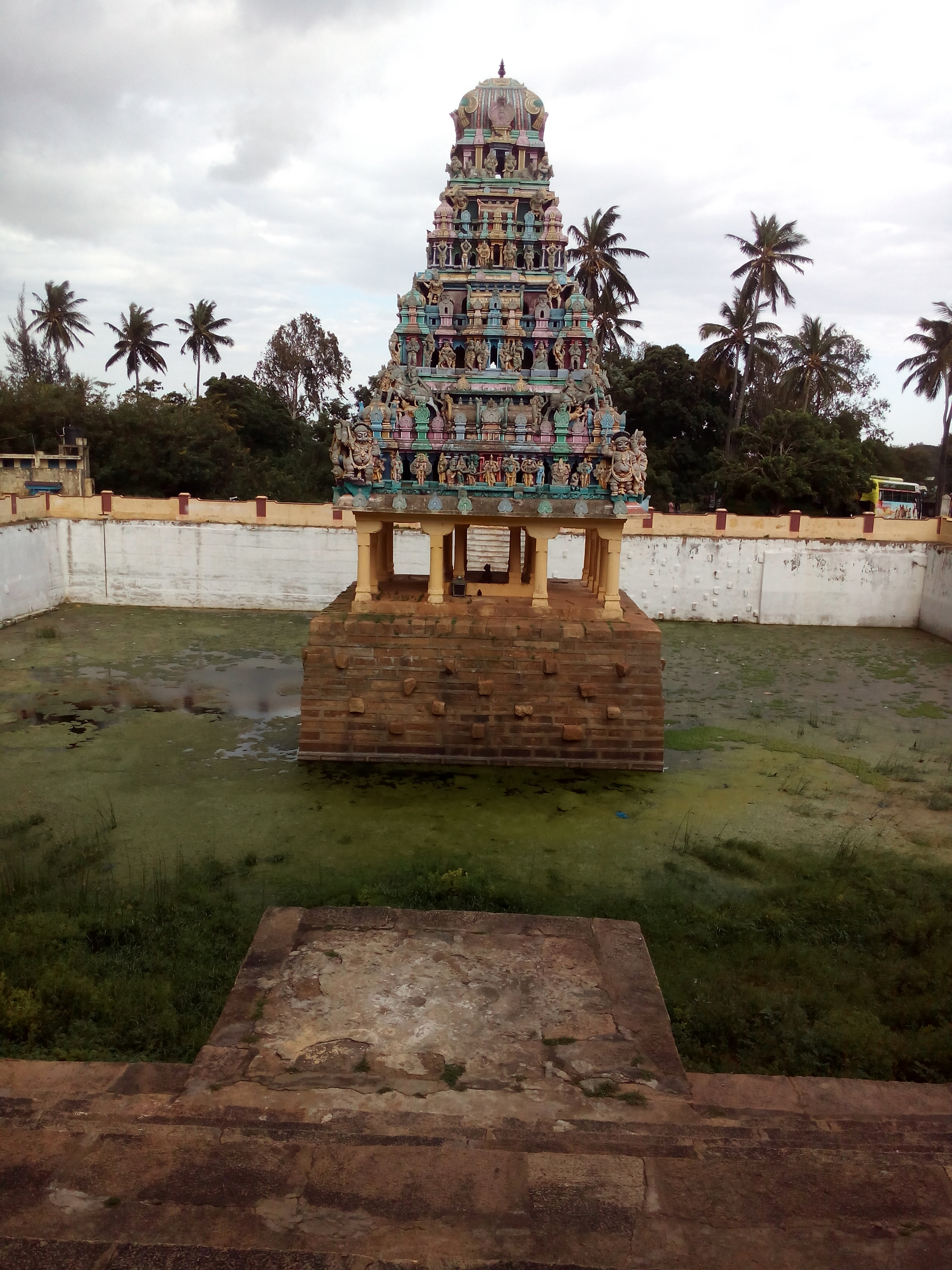 Courtallanathar Temple Tank